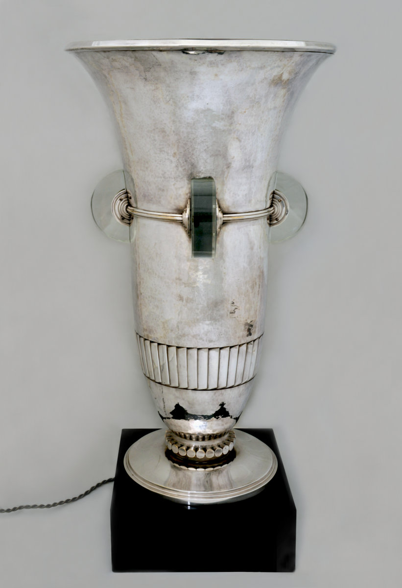 Vase lumineux, métal argenté, de Béal commandé par l'Etat pour l'Exposition Universelle de 1937, Paris, hauteur 50 cm (photographe isabelle Bideau, Mobilier national)